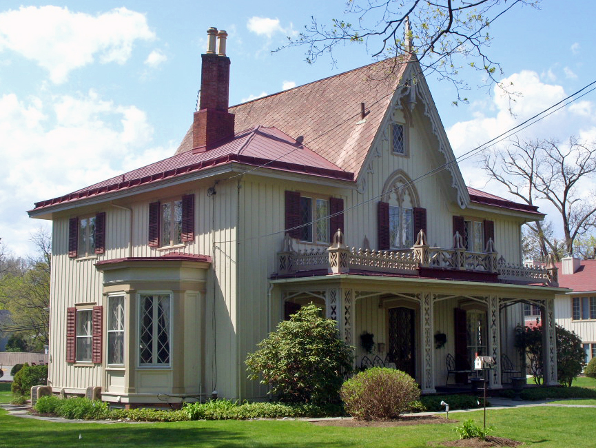 Henry Delamater House on U.S. Route 9 in Rhinebeck village, New York. A contributing property in the Rhinebeck Village Historic District, and on the National Register of Historic Places in Rhinebeck.